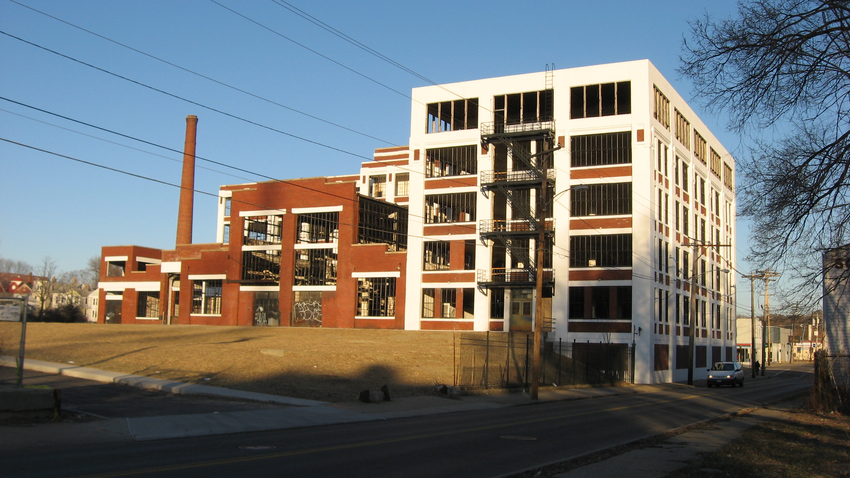 Western side of the American Can Company Building, located at 4101 Spring Grove Avenue in the Northside neighborhood of Cincinnati, Ohio, United States. Built in 1921, it is listed on the National Register of Historic Places.